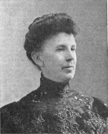 Ella Hamilton Durley, from a 1905 publication.